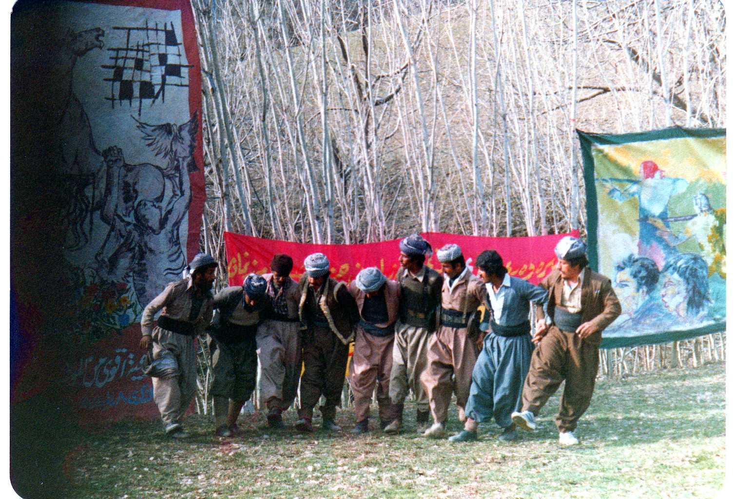 Partisans, northern Iraq, 1980s